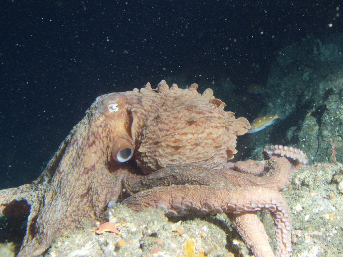 A Pacific Giant Octopus (Enteroctopus dolfeini) was observed off Point Piños, California, in August 2004 at a depth of 65 meters during sanctuary sea floor monitoring surveys using the Delta submersible.